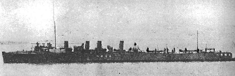 A Japanese Harusame or Asakaze class destroyer. (the name is illegible and the classes are close enough derivatives to share a schematic). The reference lists the class as "Arare".